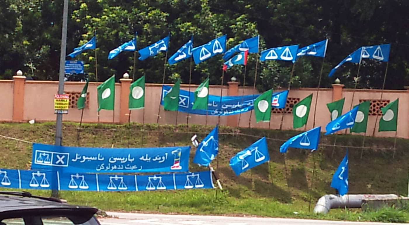 13thGE flag wars in Klang Valley